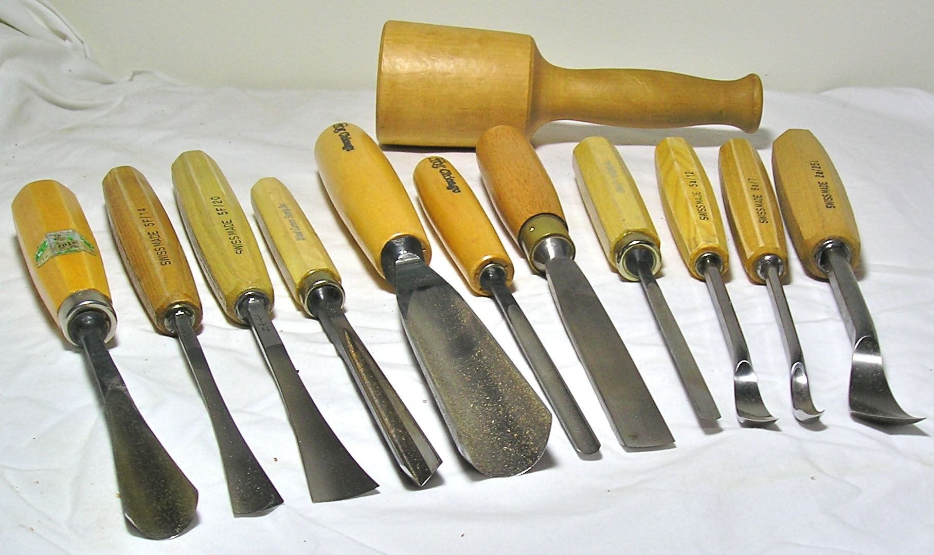 A selection of woodcarving gouges, chisels, and a mallet.